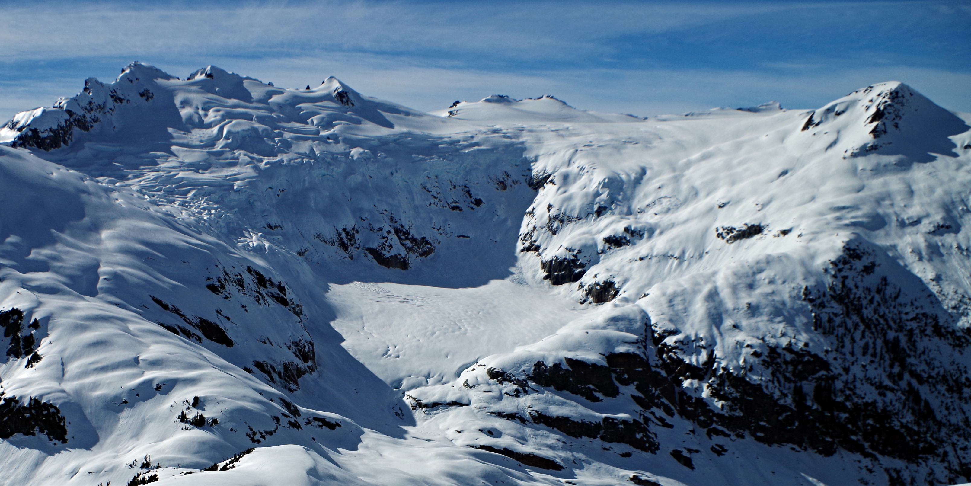 Mount Jimmy Jimmy, east aspect, seen from Coin Peak